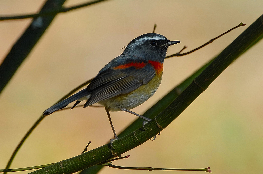 武陵農場 Collared Bush-robin (Tarsiger johnstoniae)